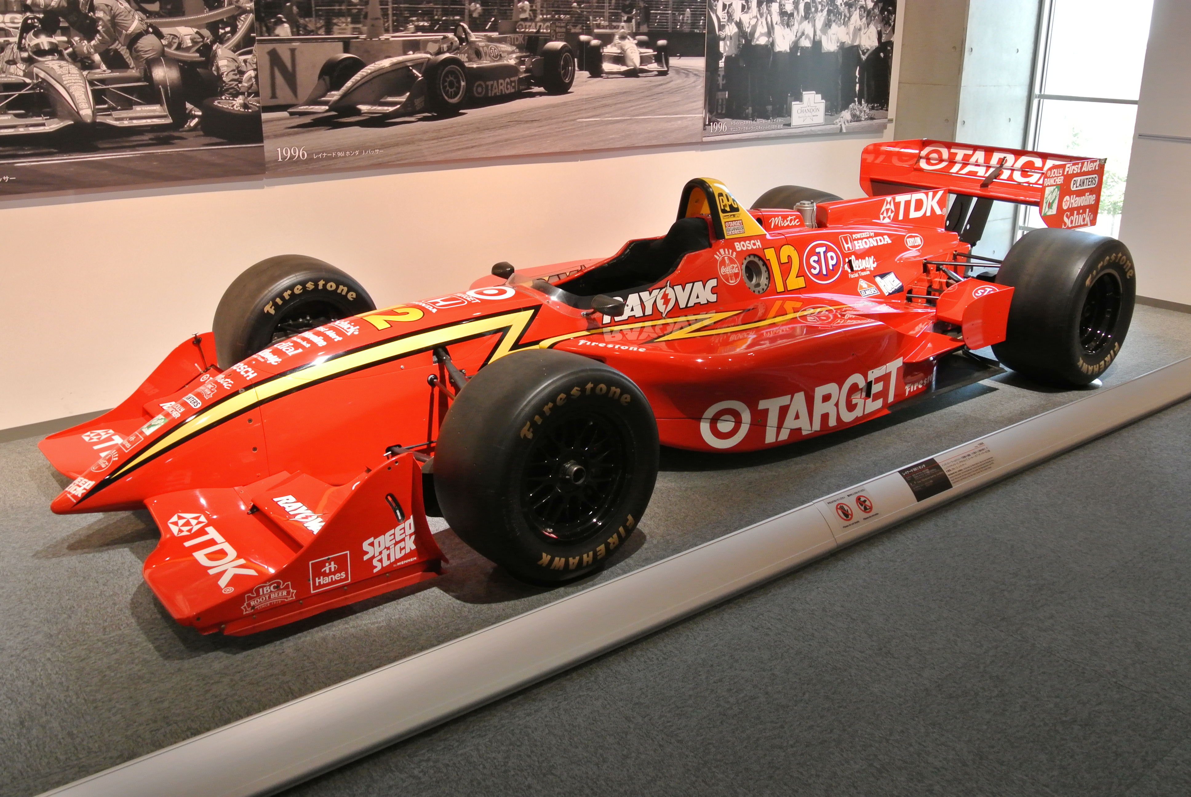 1996 Reynard 96I Honda in the Honda Collection Hall.